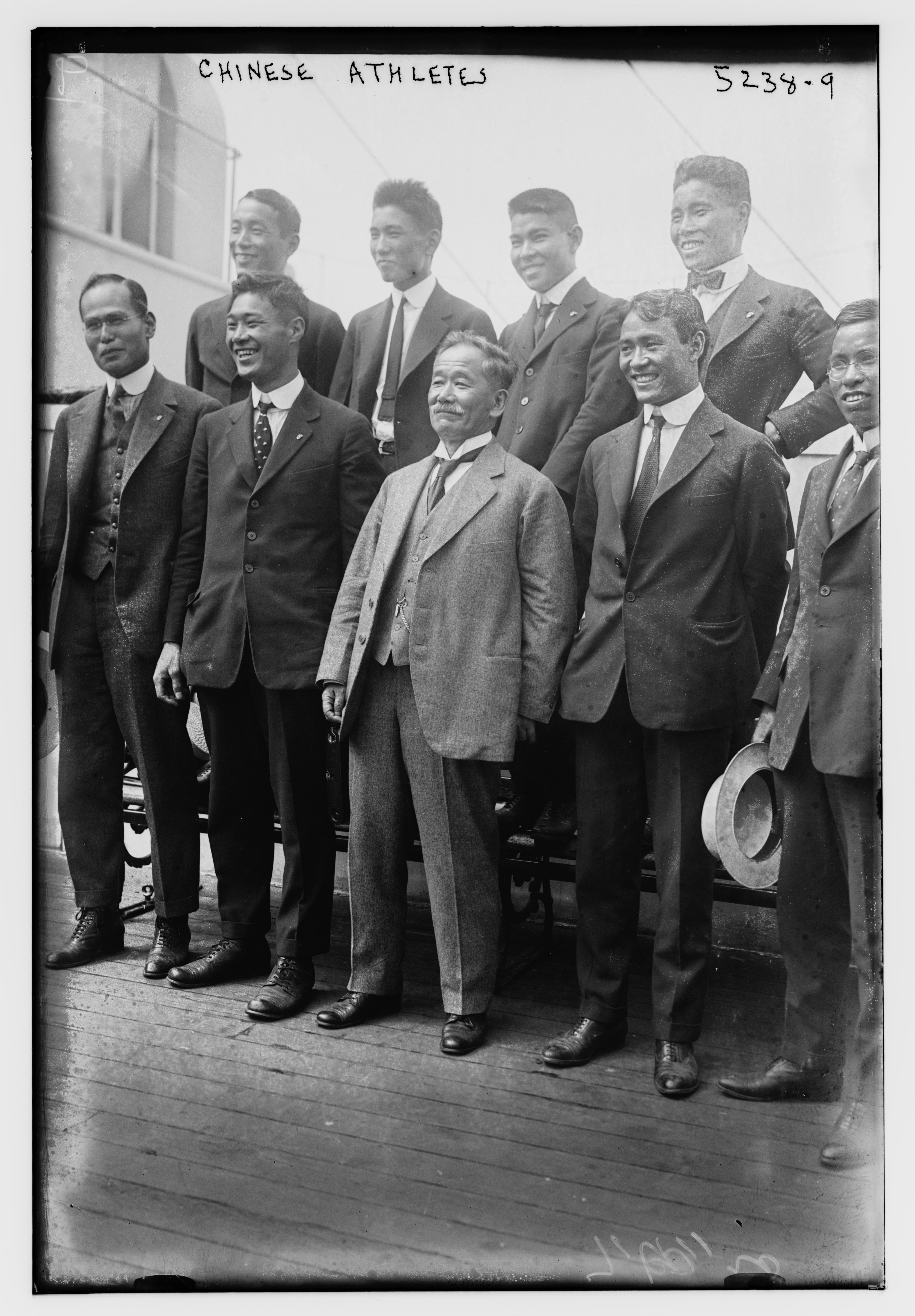 Title: Japanese athletes Abstract/medium: 1 negative : glass ; 5 x 7 in. or smaller.Photograph shows team of Japanese athletes, probably on their way to the 1920 Olympic Games in Antwerp, Belgium. Athletes include runners Zensaku Motegi (1893-1974) (front row, second from left) and Shizo Kanakuri (1891-1983) (back row, right). (Source: Flickr Commons project, 2018)